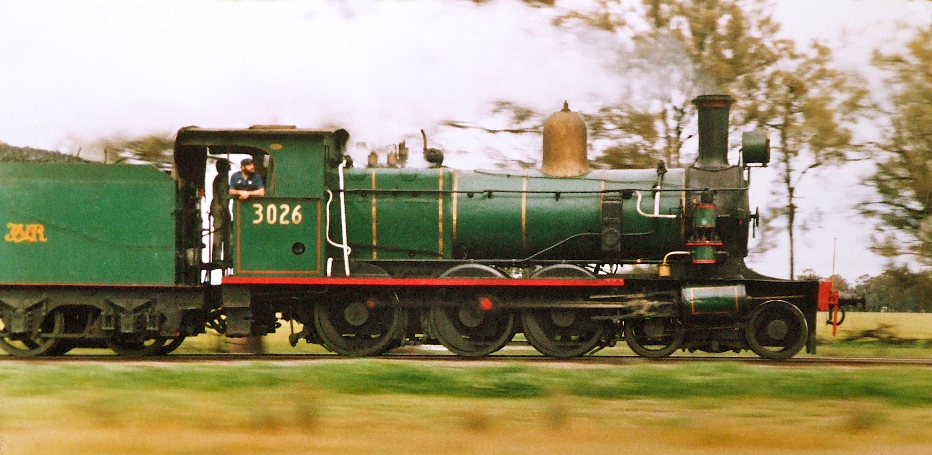 Side-on image of former New South Wales Government Railways locomotive, owned by the Lachlan Valley Railway (railway preservation group), at speed on a lightly trafficked railway line normally used only for seasonal grain traffic, not far from Barmedman on the way to West Wyalong. The occasion was a special steam trip run by the group in 1983, probably in May or June. The fireman is resting for a moment, his face just far enough outside to catch some bracing drizzle after the heat of the firebox.